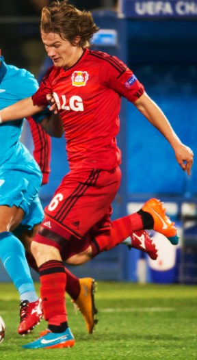 Tin Jedvaj